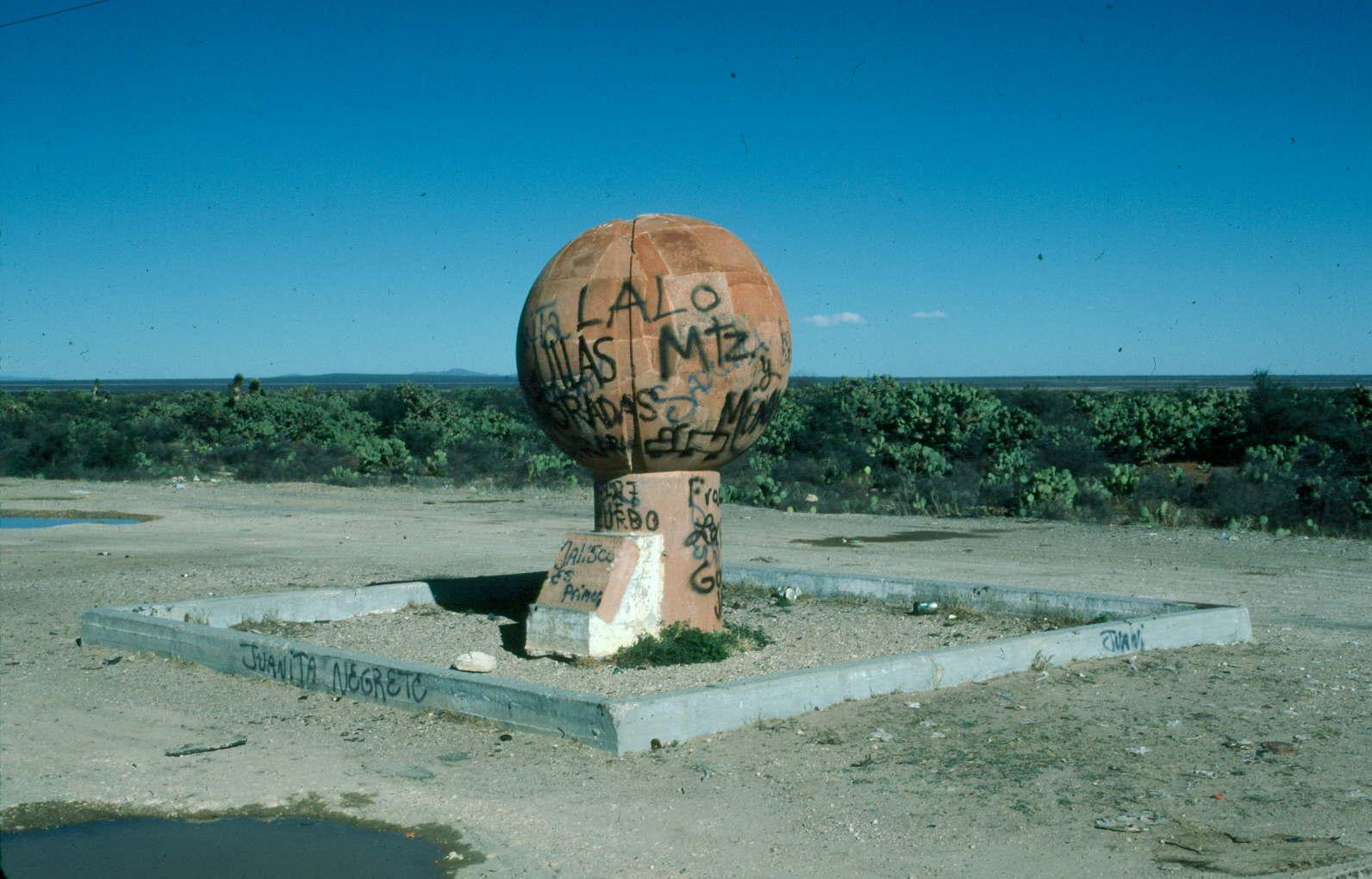 Monument marking the Tropic of Cancer 15 miles northeast of Villa de Cos, Zacatecas, Mexico.